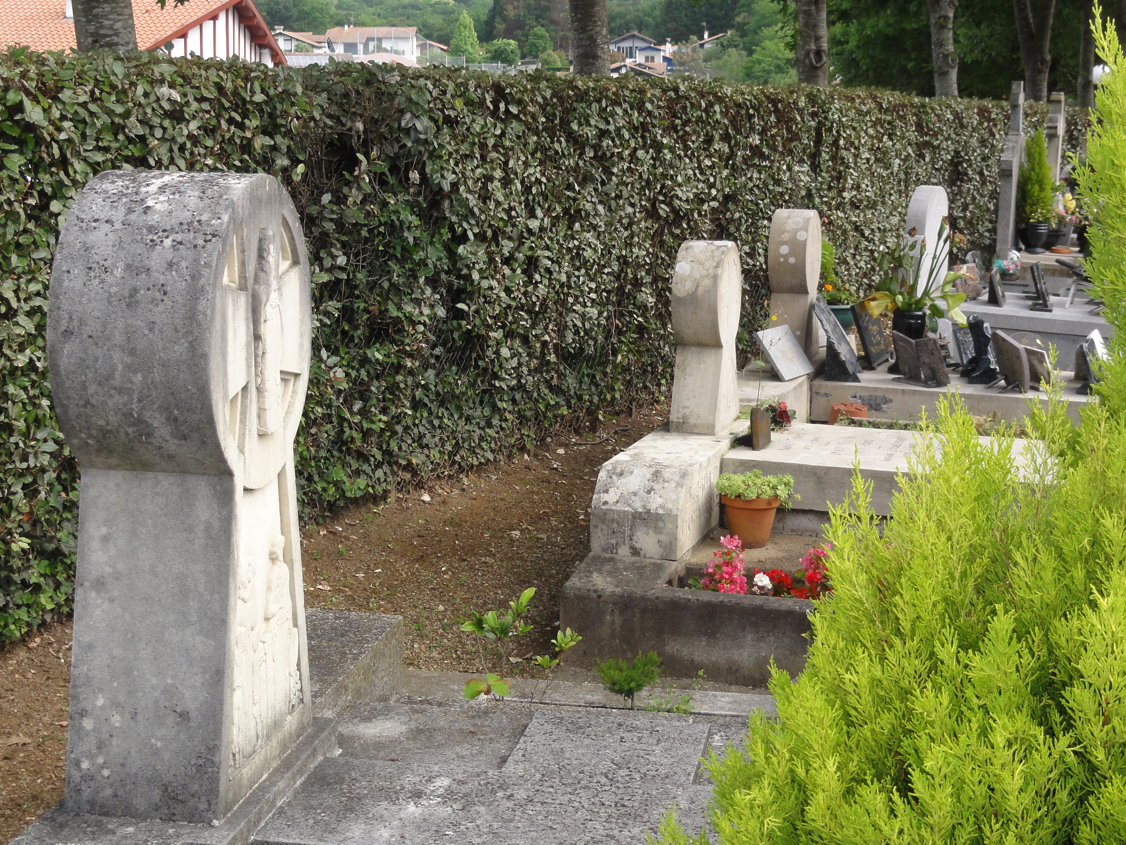 Bassussarry stèles basques 01